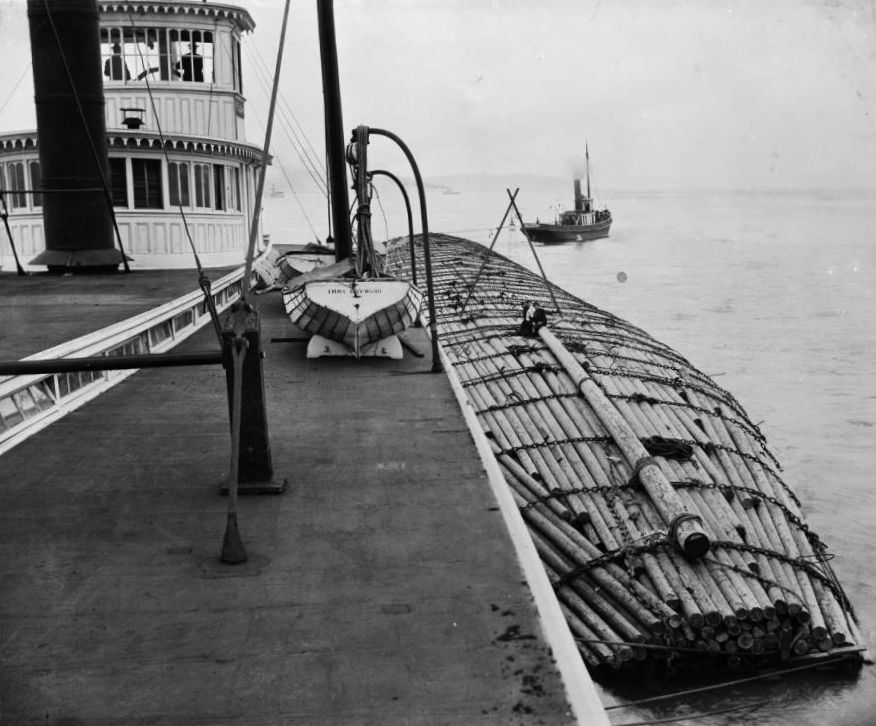 Steamer Emma Hayward with a Benson raft under tow.